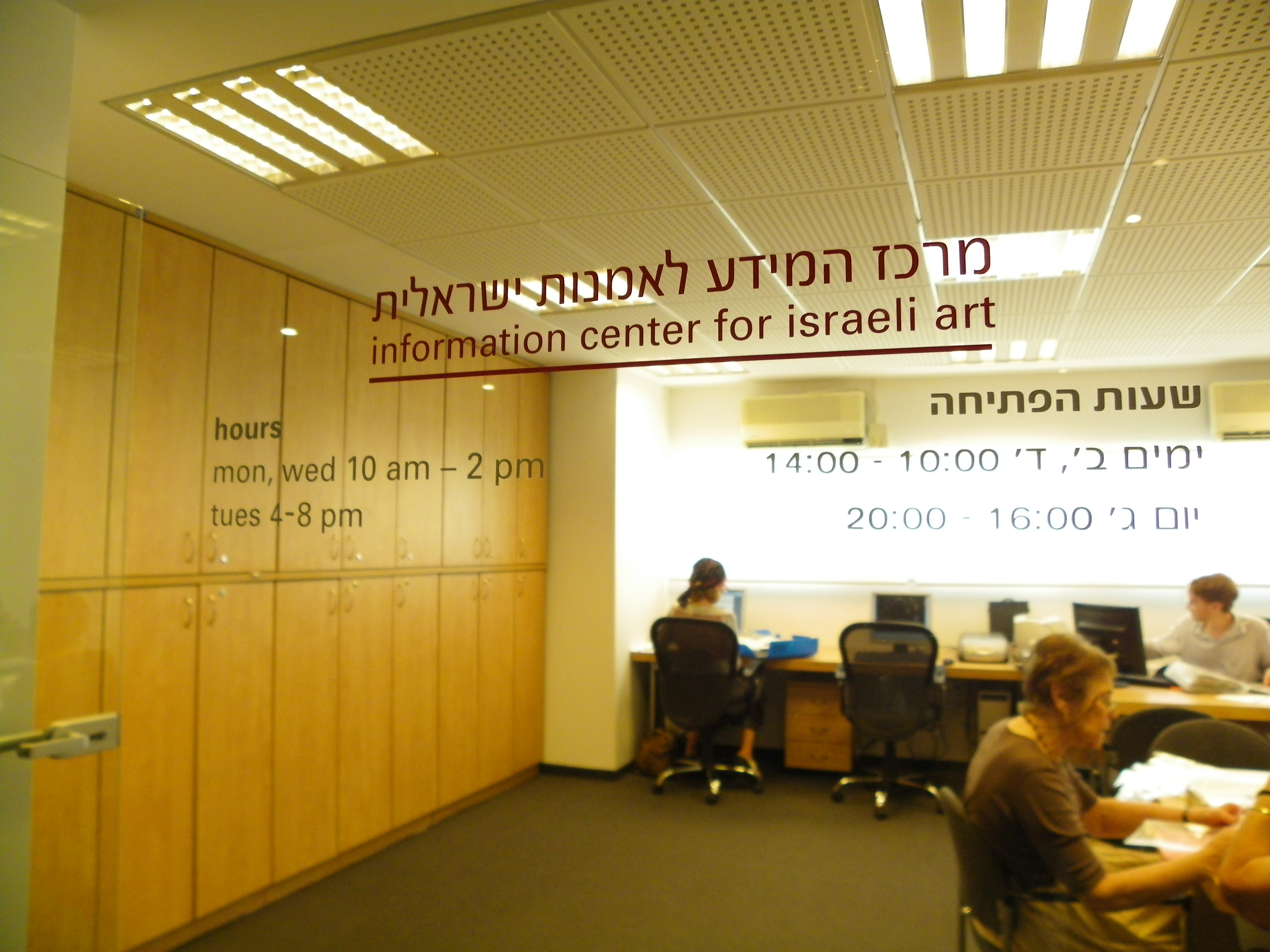 Photograph